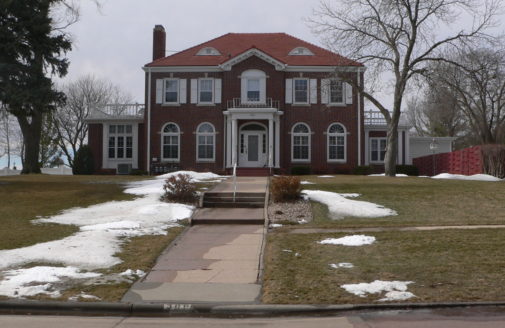 Dr. John Trierweiler House, located at 301 Spruce Street in Yankton, South Dakota; seen from the east. The 1926 Colonial Revival house is listed in the National Register of Historic Places.